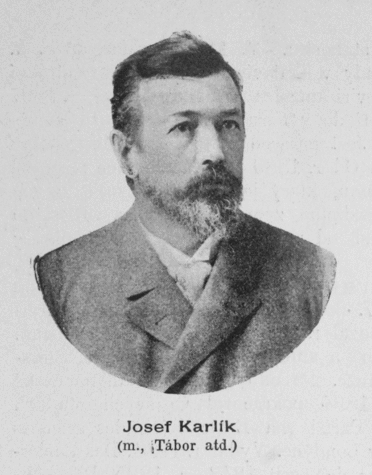 Portrait of Josef Karlík (1844-1915), Czech politician.